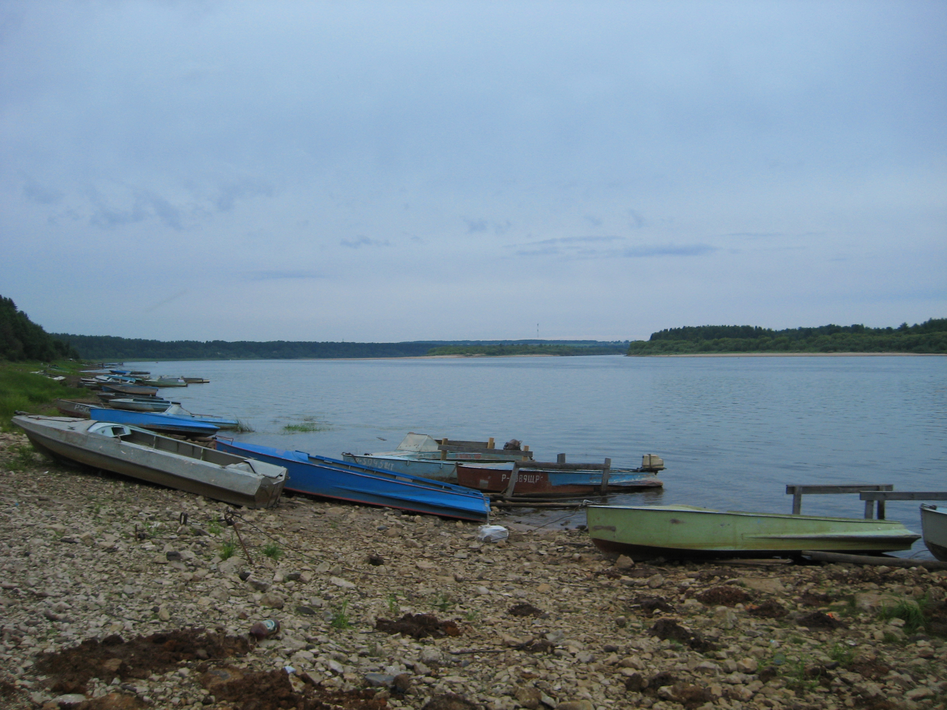 coast of vychegda